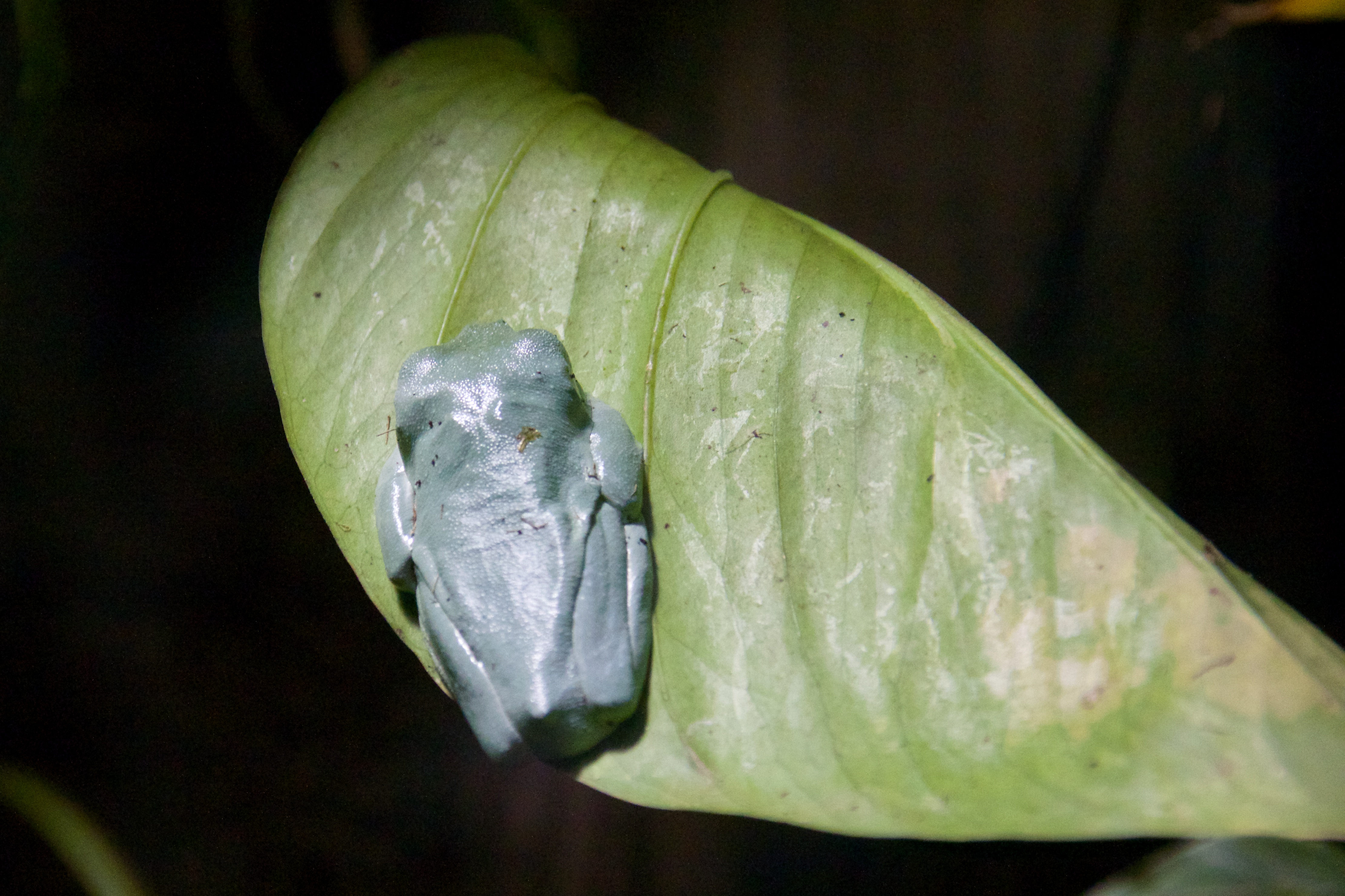 Morelet's Tree Frog. Agalychnis moreletii. At Chester Zoo.